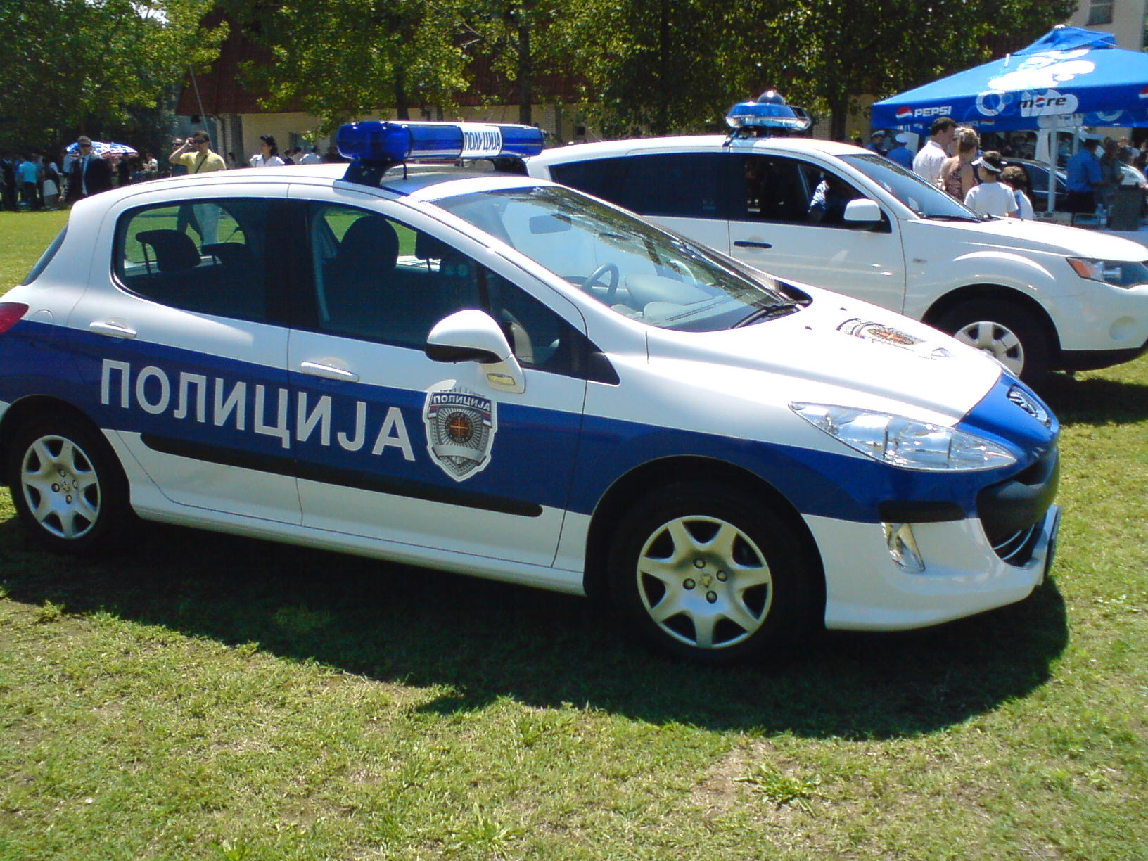 Peugeot 308 of Serbian Police